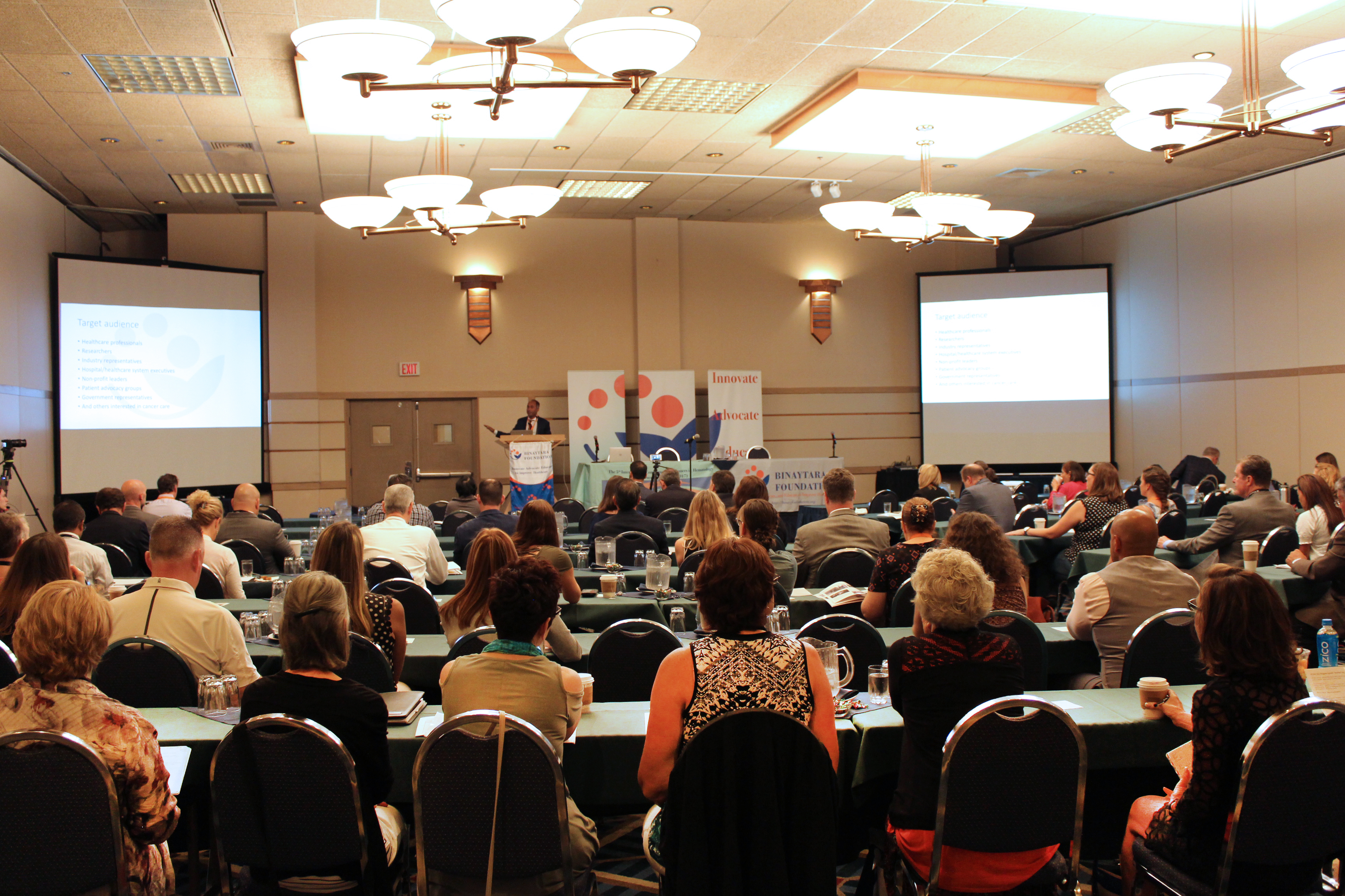 ICAHO